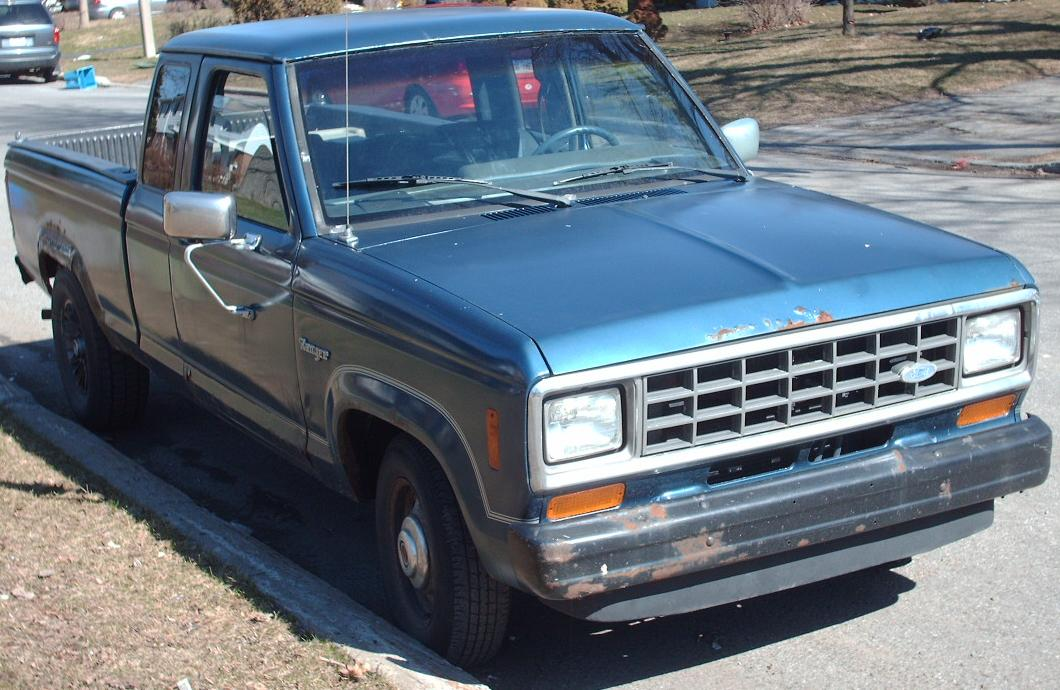 1983-1988 Ford Ranger photographed in Montreal, Quebec, Canada.